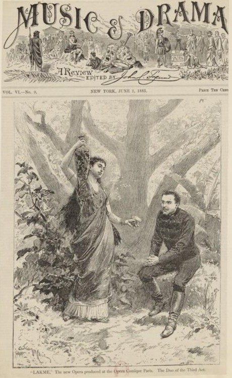 "Lakme", The new opéra produced at the Opera Comique Paris. The Duo of the Third Act : [estampe] / Adrien Marie [sig.]